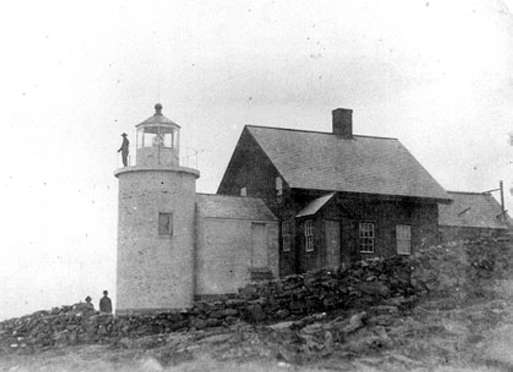 Coast Guard archive photo of Tenants Harbor Light, Maine.